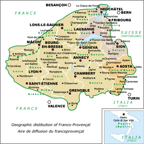 Franco-Provençal language map showing cities & political divisions, Revision 1